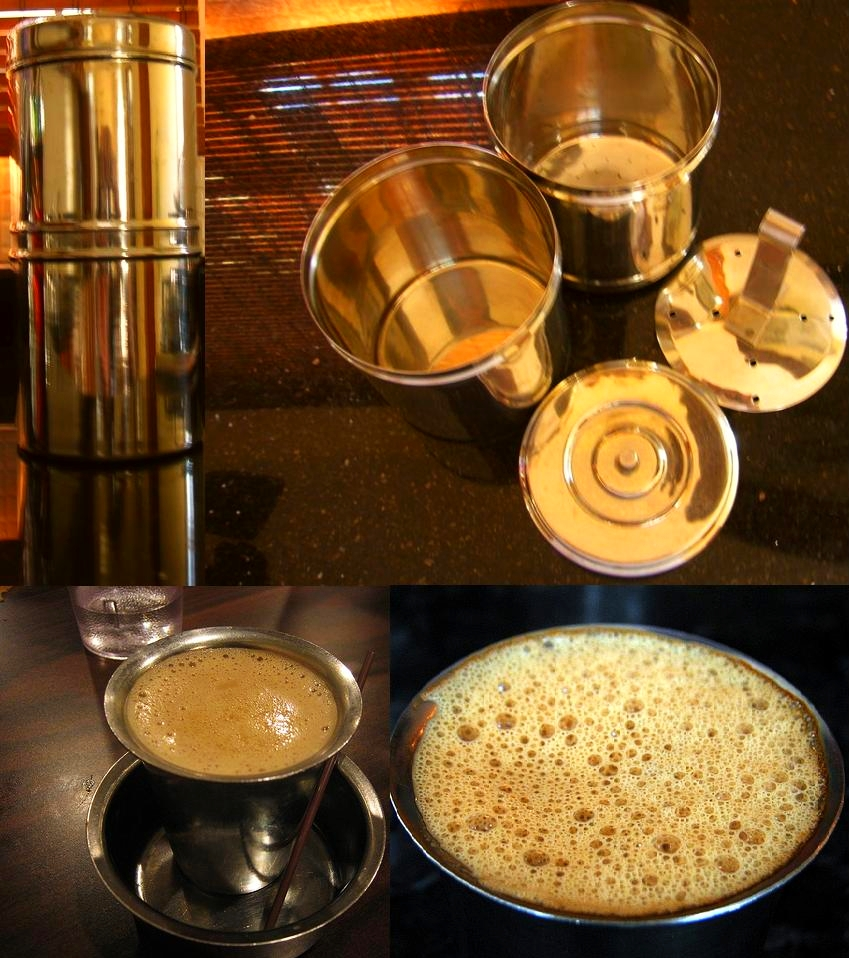 Madras Kappi